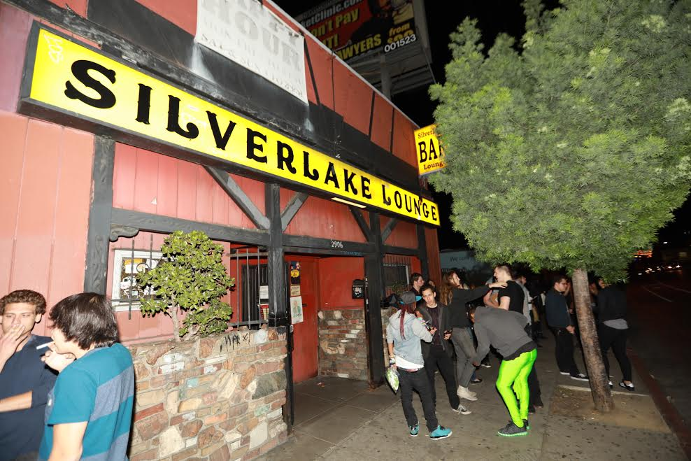 The outside of the bar 11-17-16